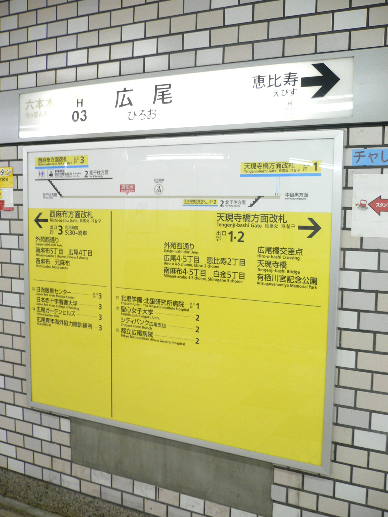 Hirō Station (広尾駅), Minato W, Tokyō M.